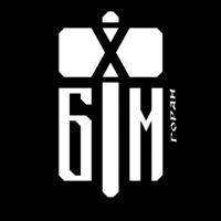 The emblem of «Bilyi Molot», or «White Hammer» (Goran's group), part of the «Right Sector».